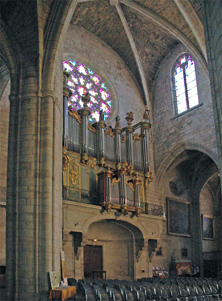 Lodève, cathedral. France